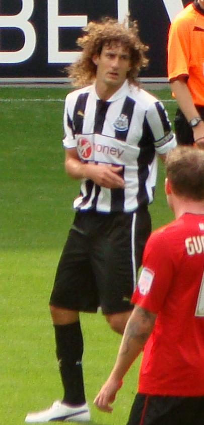 Fabricio Coloccini playing for Newcastle